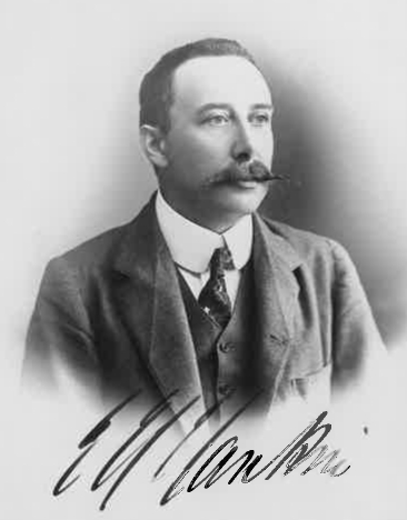 Ernest Hanbury Hankin (4 February 1865 – 29 March 1939) - original description "Photograph of Ernest Hanbury Hankin, St John's College, aged about 35" - photo cropped from original portrait of 7 x 4 1/2 inches with studio notice on reverse and name on footer.